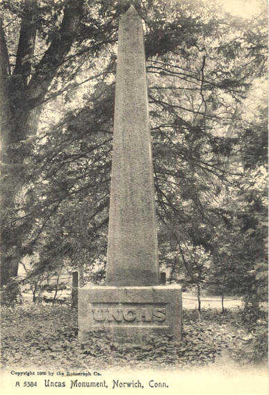 Monument to Native American Sachem Uncas in Norwich, Connecticut, Rotograph Co. A 5384.